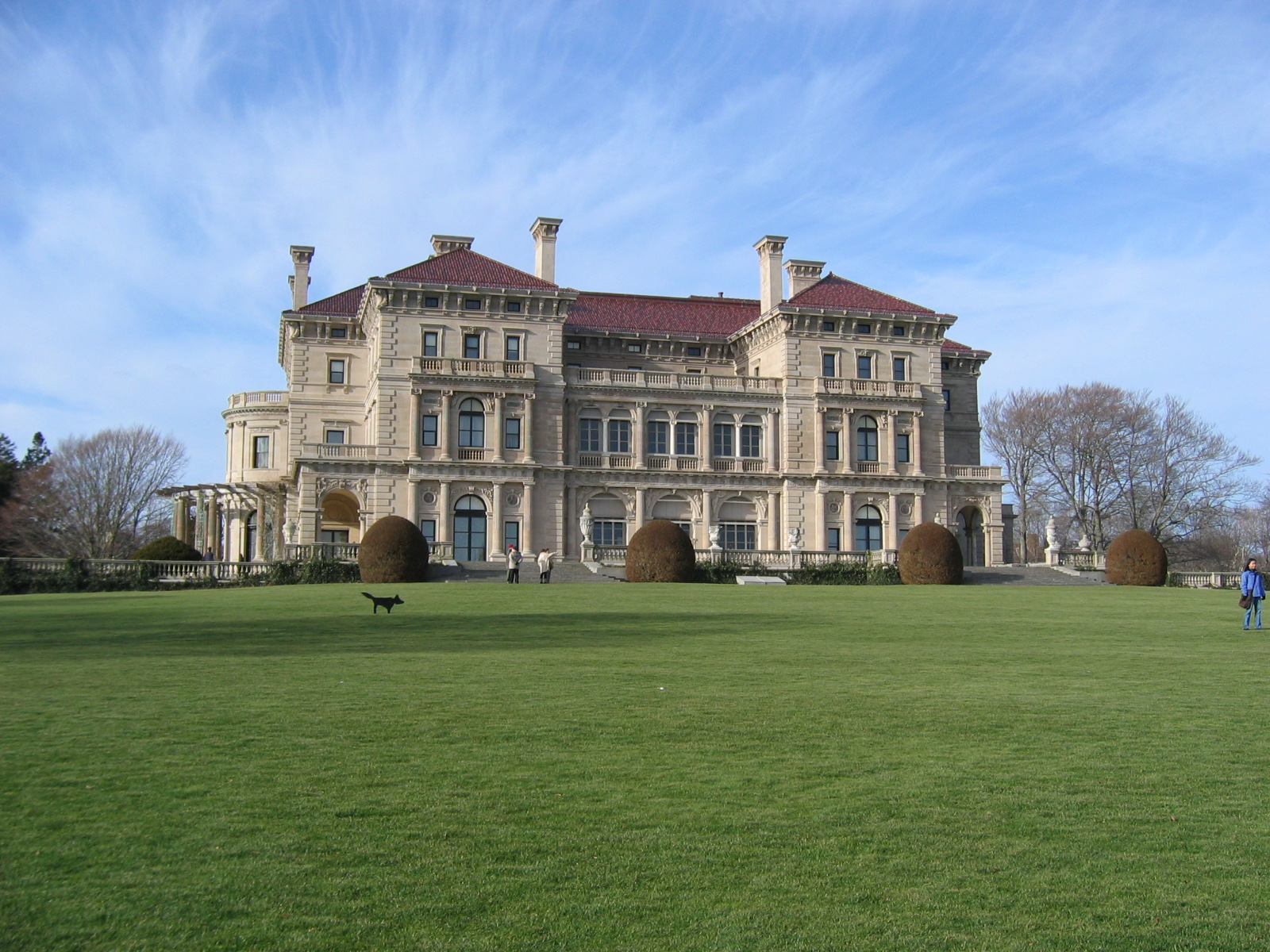 The Breakers mansion, Newport, Rhode Island